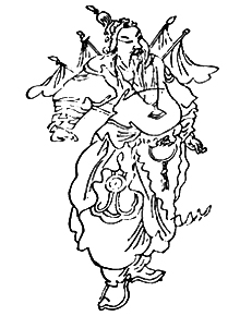 An illustration of Yang Wenguang from a 19th century novel print.